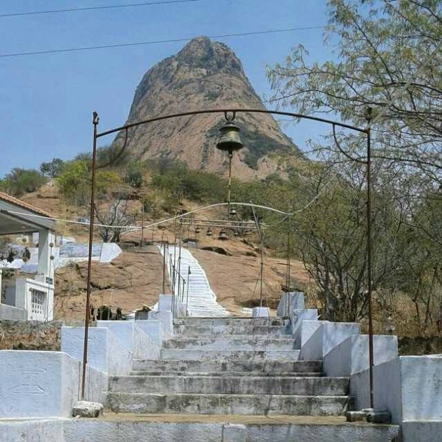 Picture of lord malligarjuna swamy temple